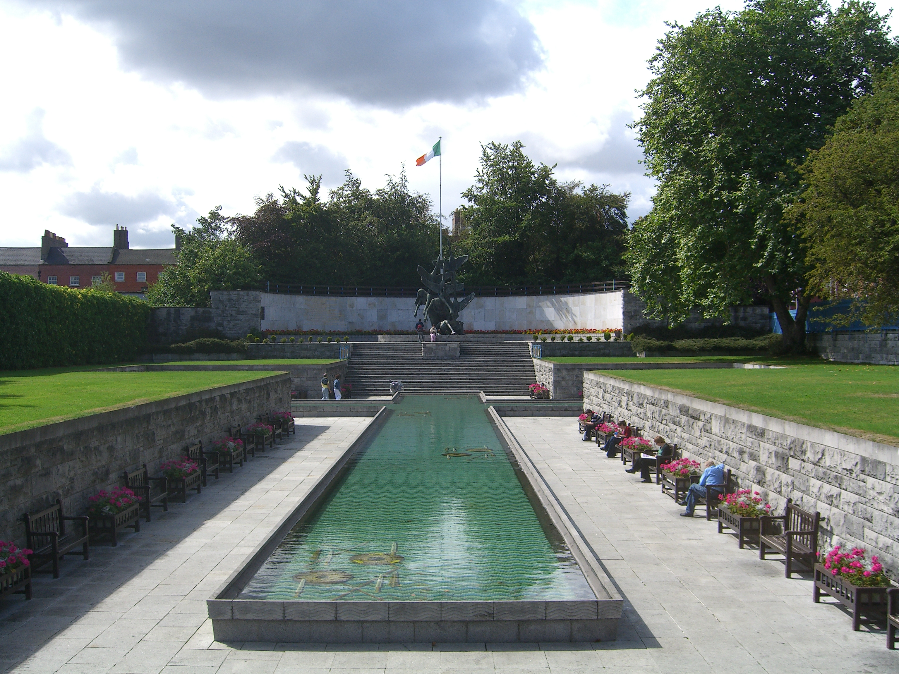 Infernalfox. Garden of Remembrance taken 2006. The Dublin Garden of Remembrance is dedicated to the soldiers that died in the Anglo-Irish War.